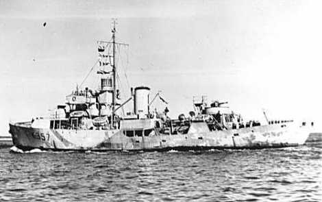 modified Flower class corvette Riviere du Loup